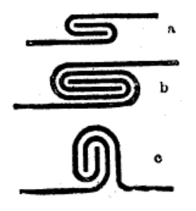 Three folds